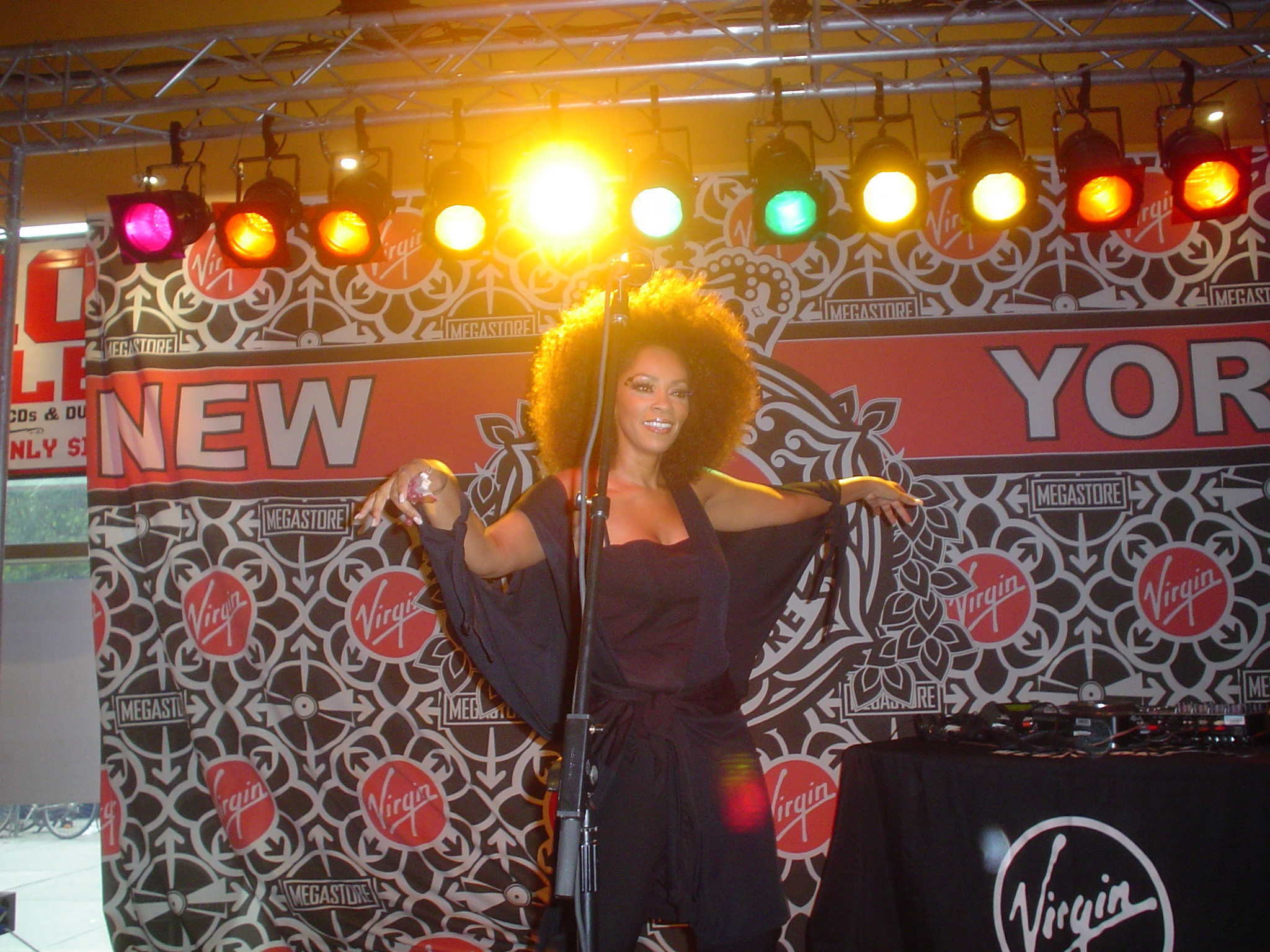 Jody Watley performing during in-store promotion for 'The Makeover in 2006.